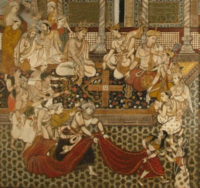 Illustration from Persian Mahabharata